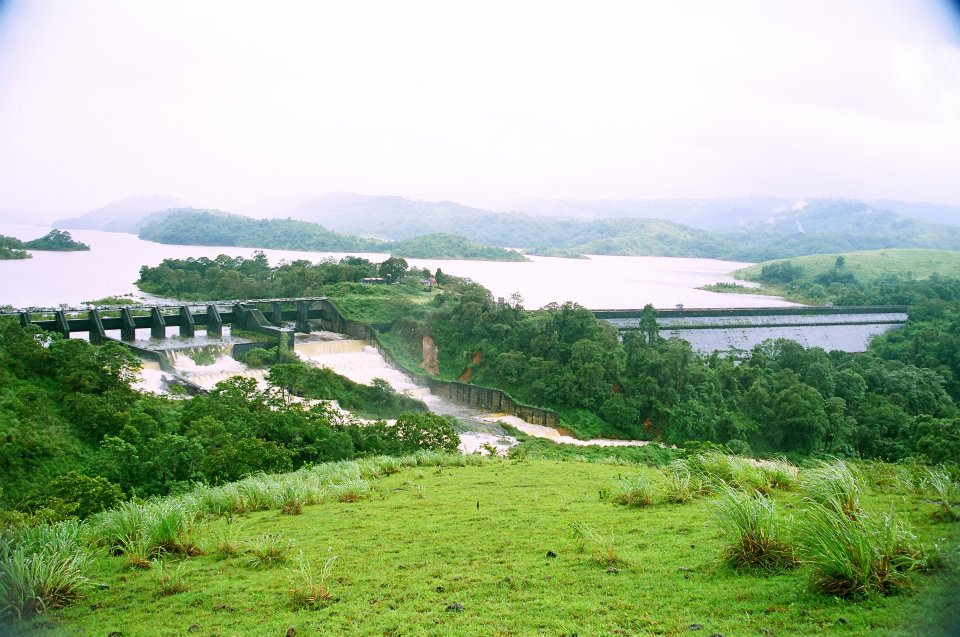 Mullaperiyar View